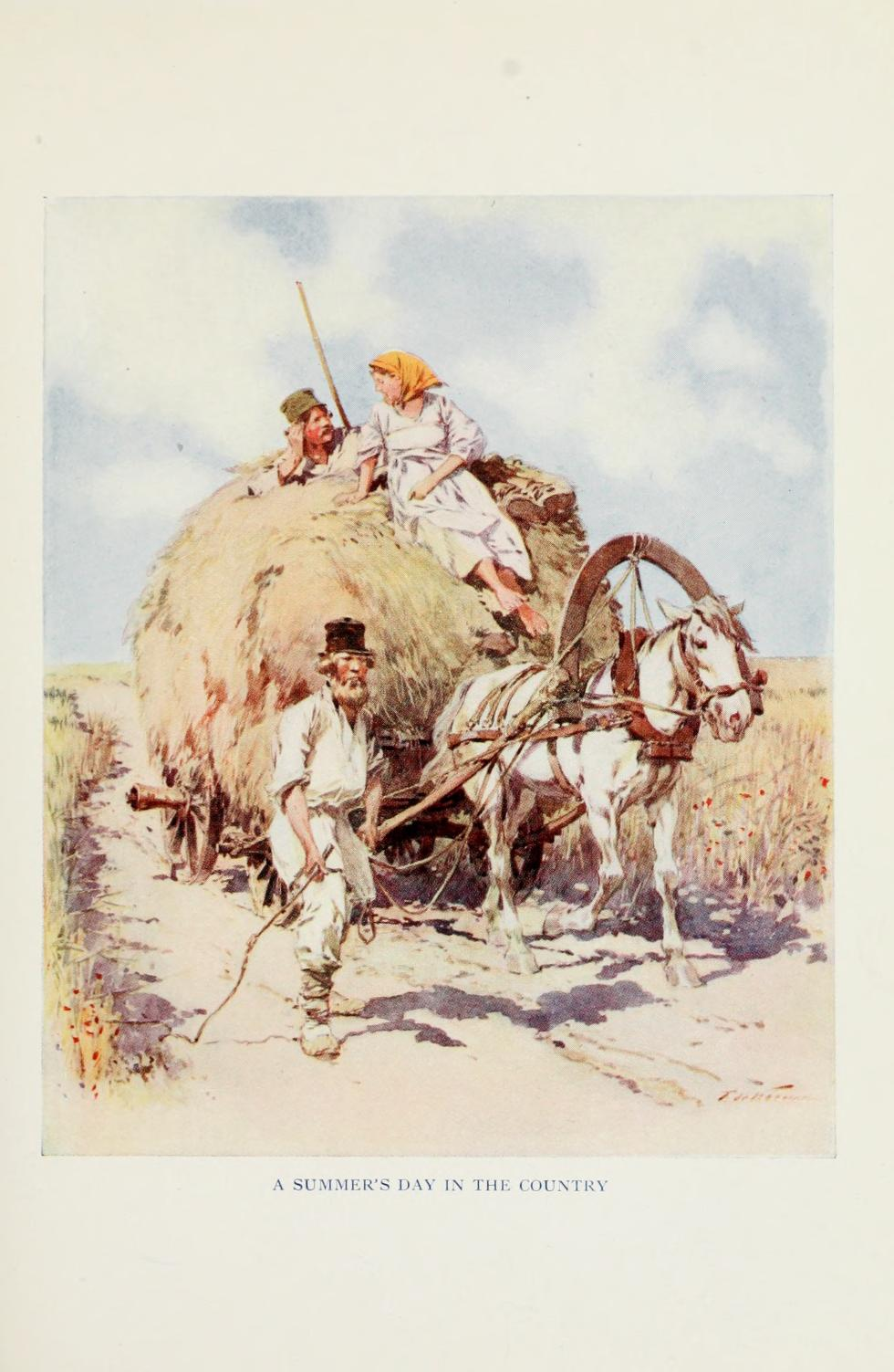 A summer's day in the country, c. 1913. Painted by Frédéric de Haenen